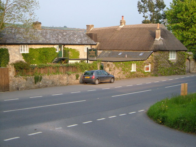 Easton Court. Contrasting roofing for the wings of this superior bed and breakfast at Easton Cross on the A382 near Chagford.